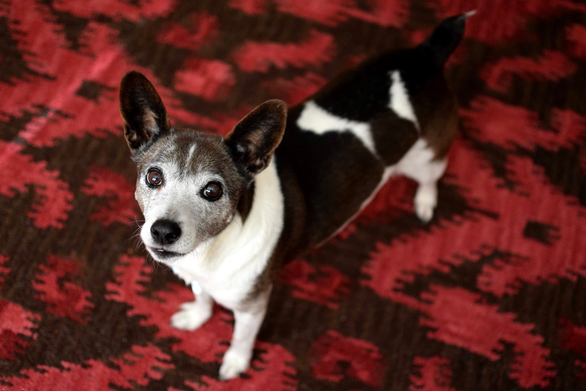 16 year old Rat Terrier with grey face due to age